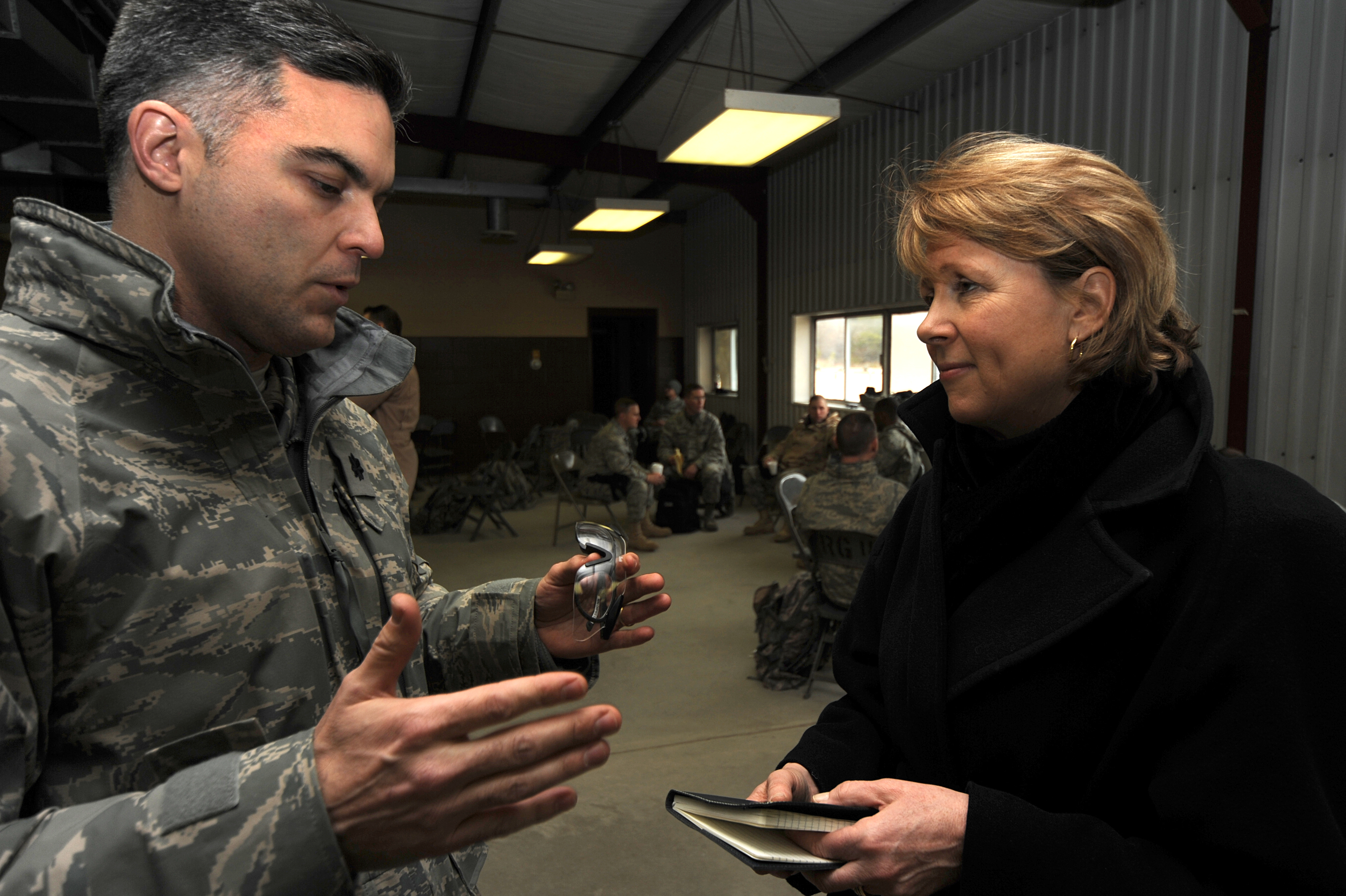 "Ms. Elisabeth Bumiller, New York Times reporter, interviews a student about his upcoming deployment during an Air Advisor Course, hosted by the U.S. Air Force Expeditionary Center, at a range on Fort Dix, N.J., Jan. 27. The Air Advisor Course is a combined effort between USAFEC, AETC, AFCENT and contractors to prepare Airmen deploying to Iraq and Afghanistan to train air force members in those countries" [From US Government website source]